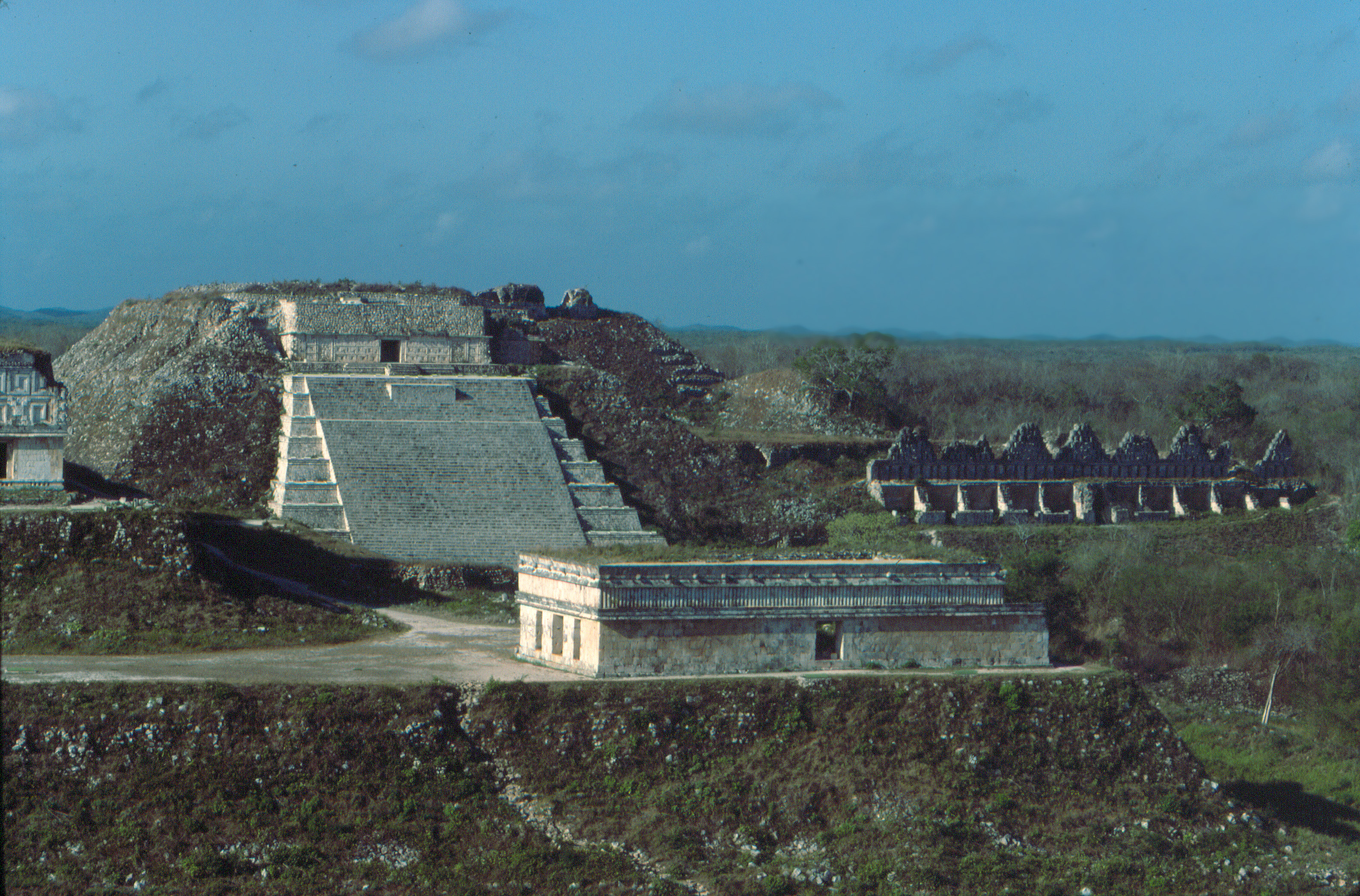 Uxmal, Yucatan, Mexico: Great Pyramid, foreground: House of the Turtles, right background: House of the Pigeons.